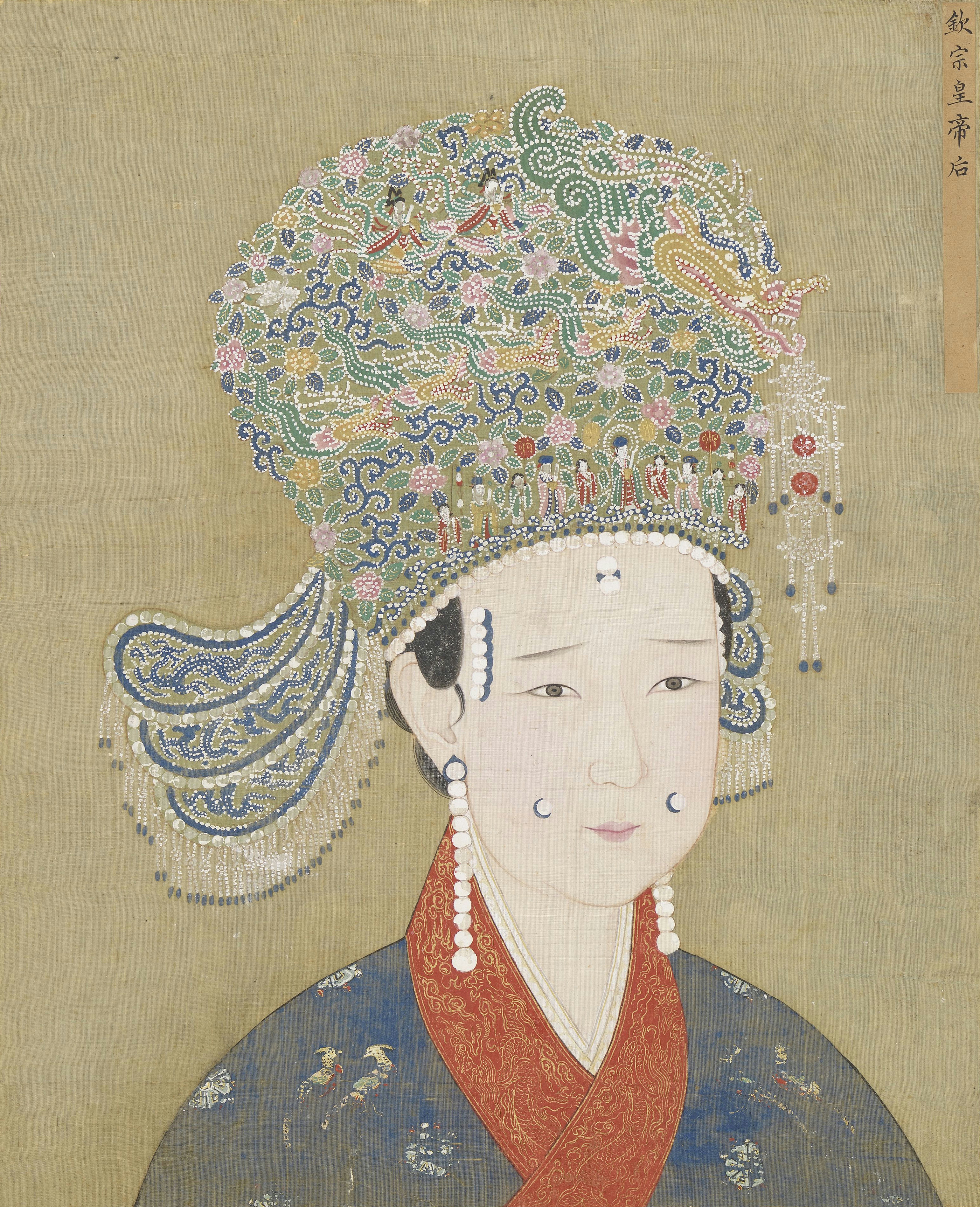 The Official Imperial Portrait of the empress and wife to Emperor Qinzong of (1100–1161) of the Song Dynasty in China.